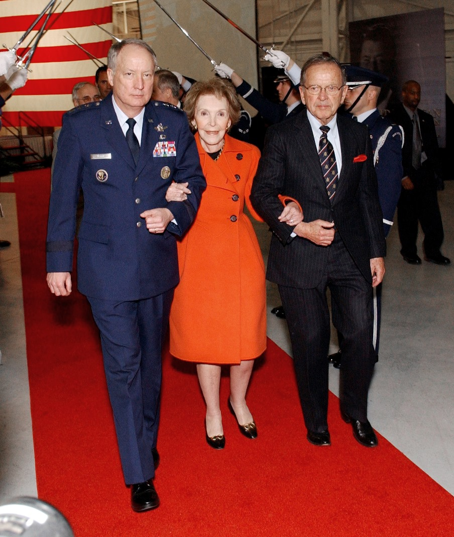 Former First Lady Nancy Reagan is escorted by Lt. Gen. Frank G. Klotz and Alaska Sen. Ted Stevens at the Ronald W. Reagan Missile Defense Site dedication ceremony on Monday, April 10, 2006.